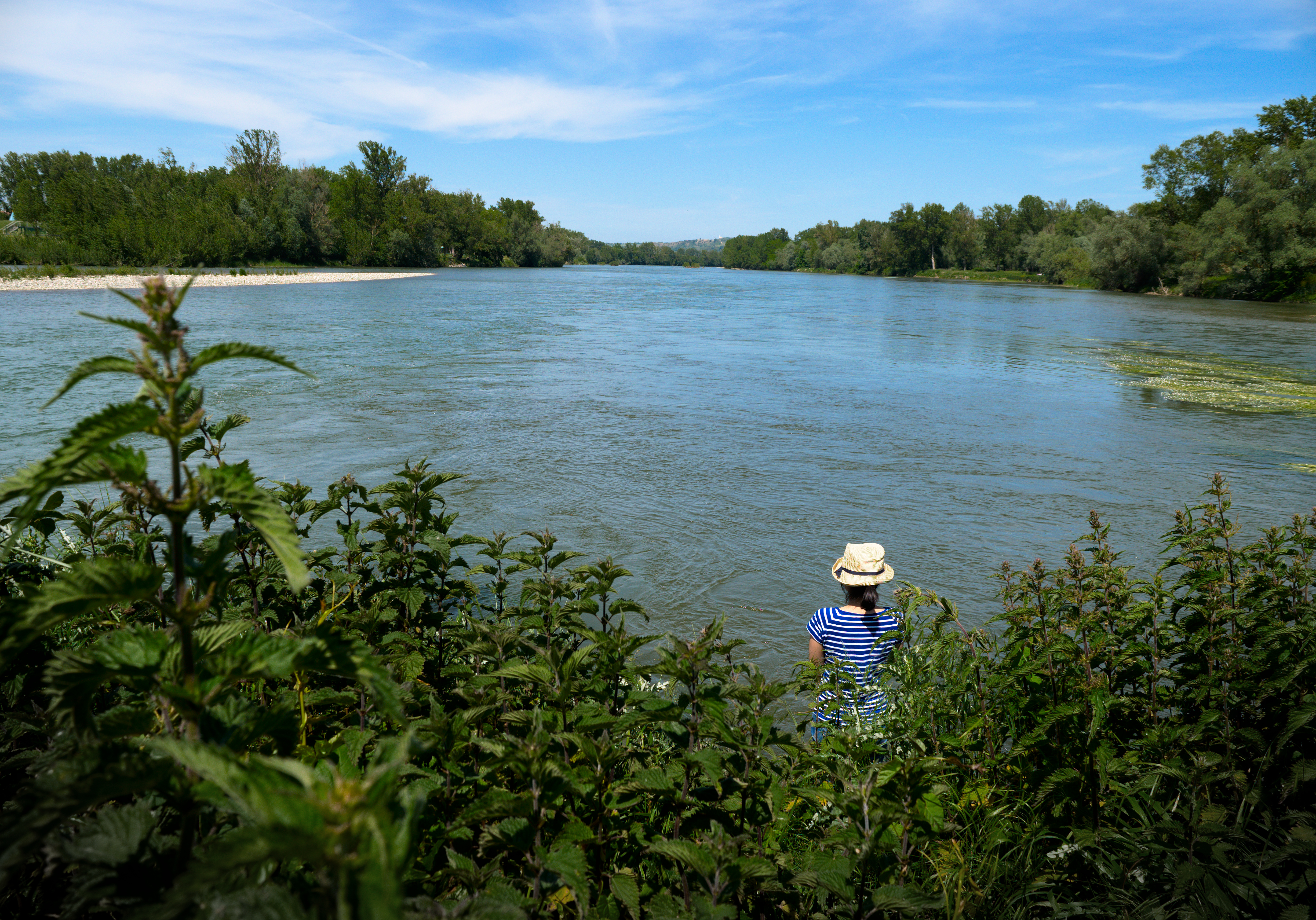 View of the confluence zone of Garonne river (left) and Ariège river (right).